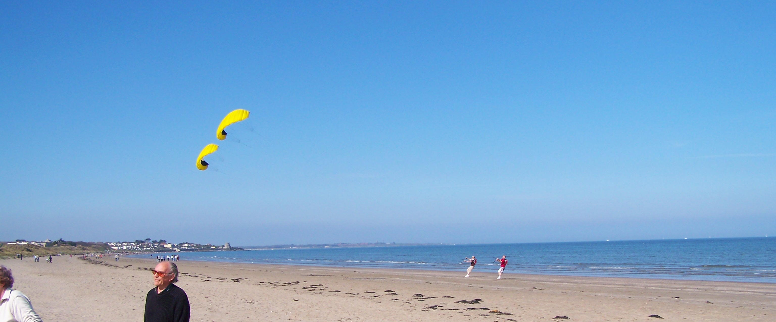 Rory Deegan